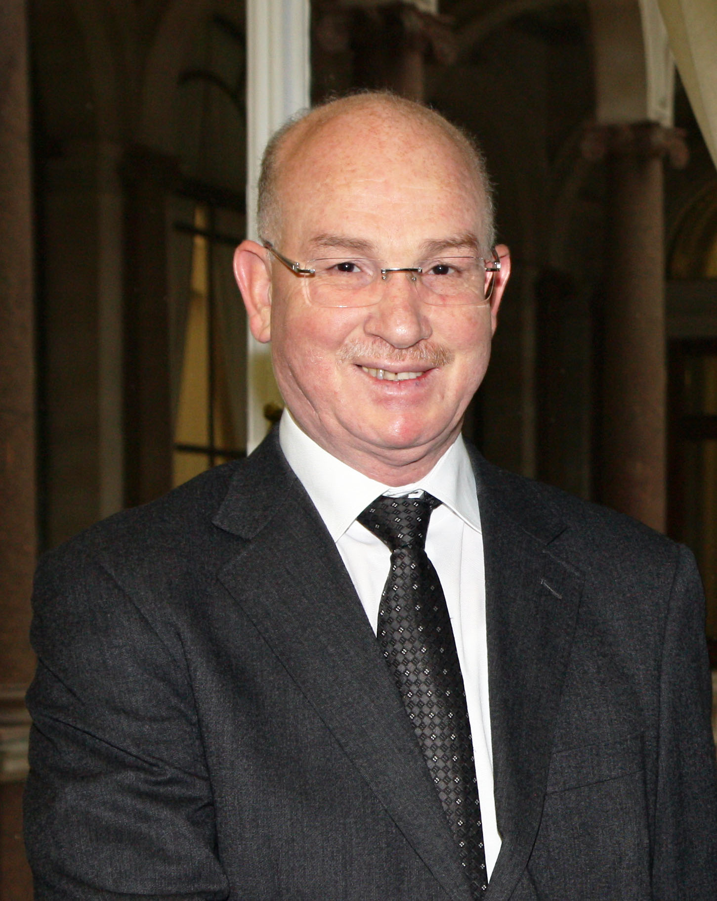 Smail Chergui African Union Commissioner For Peace And Security October 2014